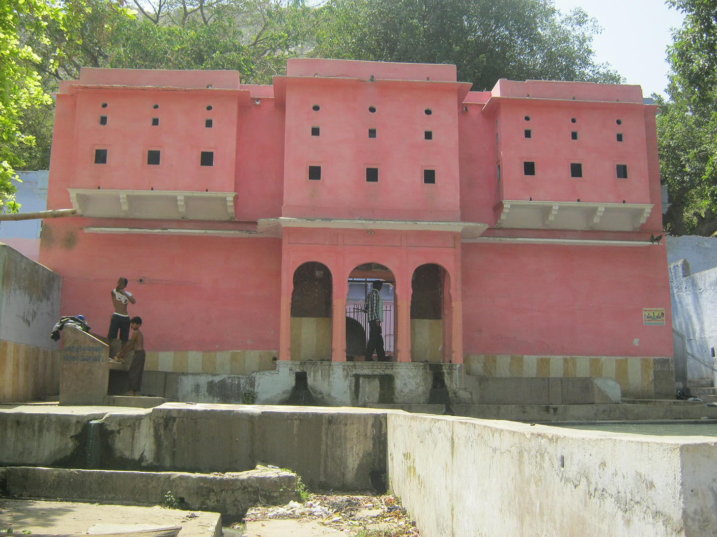 Outside Picture of Jhajhirampura Shrine